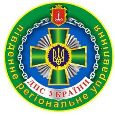 State Border Guard Service Patches of Ukraine